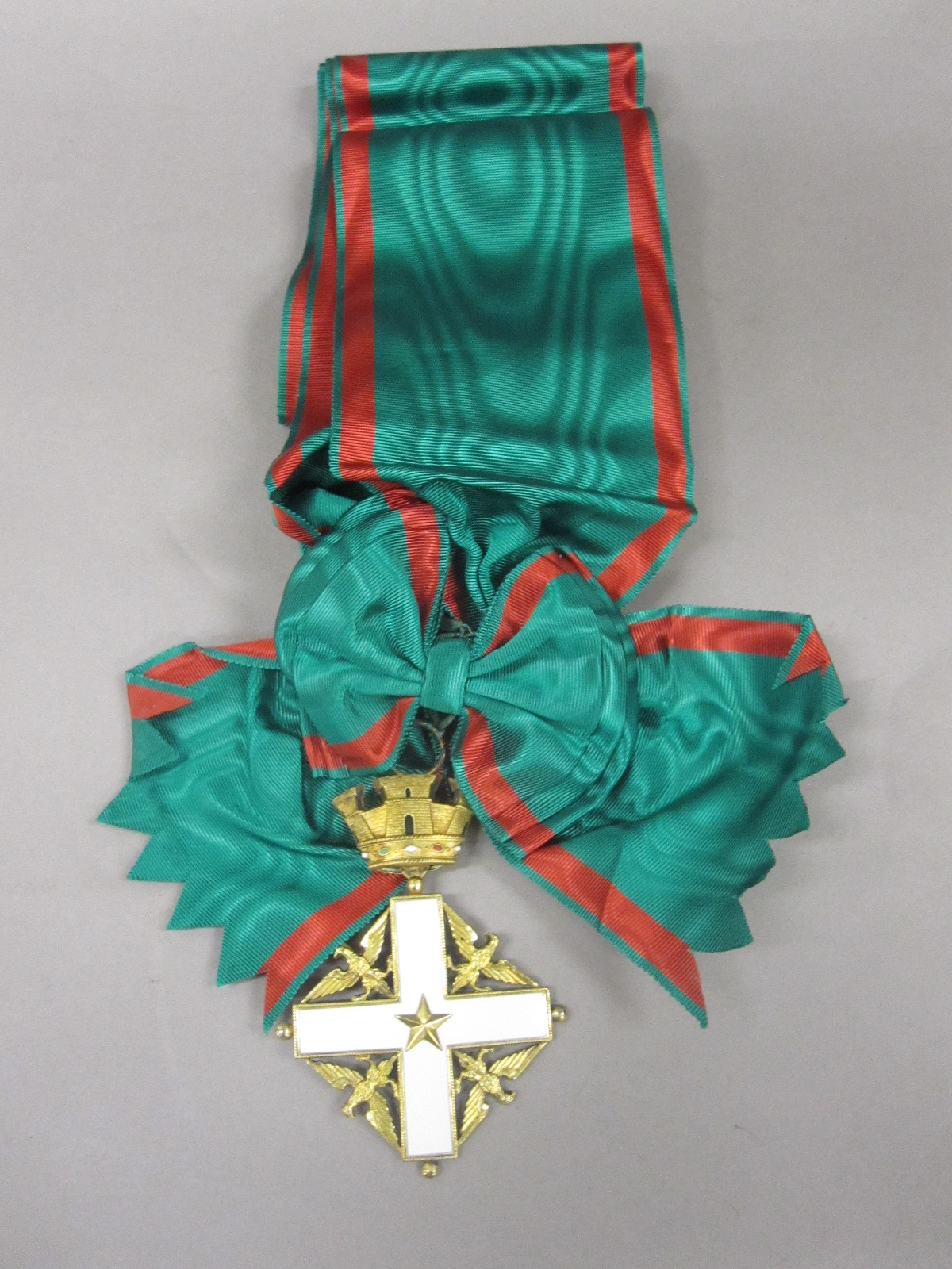 Accession: 2011-19-18 Award, Foreign, Order of Merit, Knight Grand Cross, Italy. 31.25" H x 9" W Award was presented to Admiral George W. Anderson, who was the 16th Chief of Naval Operations. The order was founded in 1951 and is the highest ranking order of the Italian Republic. This is the original style of the order.The order was changed in 2001. Collection of Curator Branch Naval History and Heritage Command.